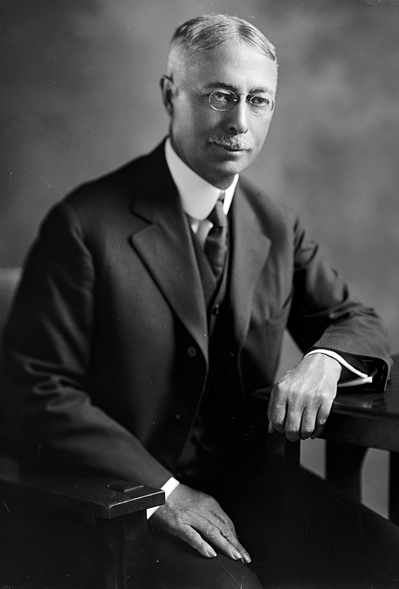 S. Wallace Dempsey, US Representative from New York